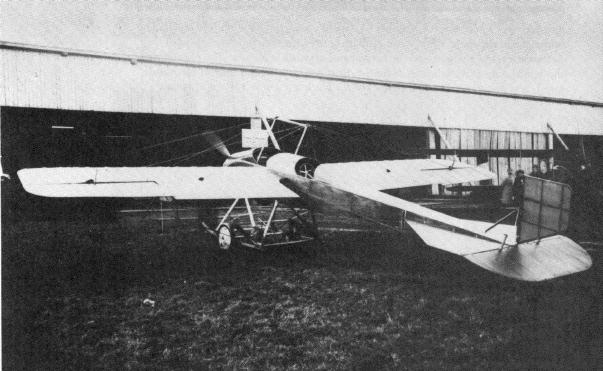 Photo of Sikorsky S-7 rear circa 1912